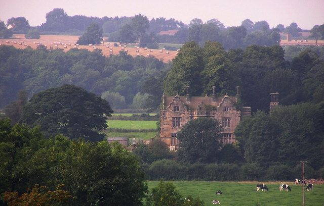 Sockburn Hall (rebuilt 1834) The peninsula of Sockburn has a fascinating history. (see 'Keys to the Past' web site for more info). The Hall is deteriorating quickly. surely a case for Restoration!